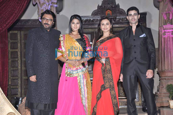 Launch of Sanjay Leela Bhansali’s serial ‘Sarwasti Chandra’